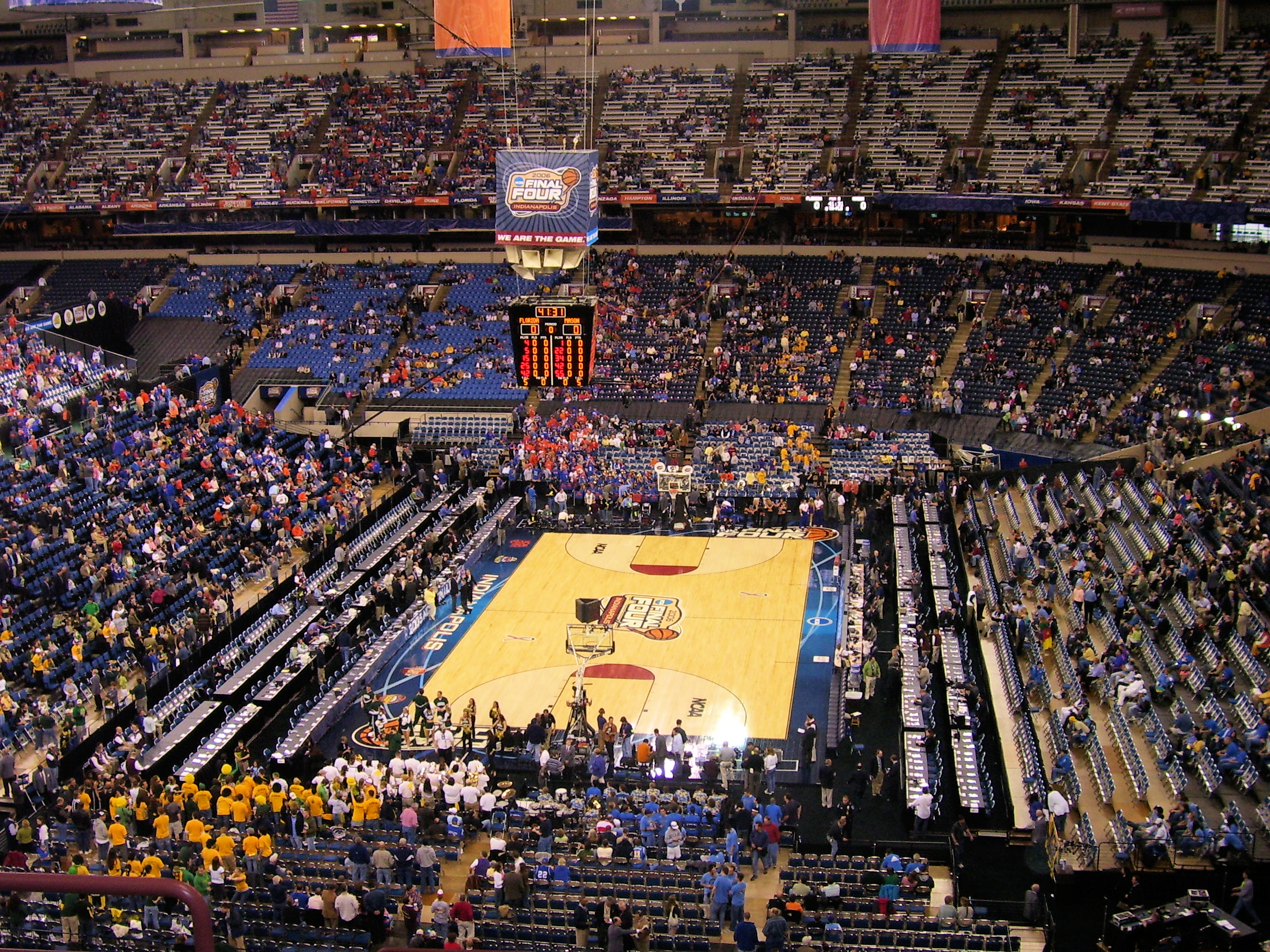 Court before the 2006 NCAA Men's Division I Basketball Tournament National Semifinals.